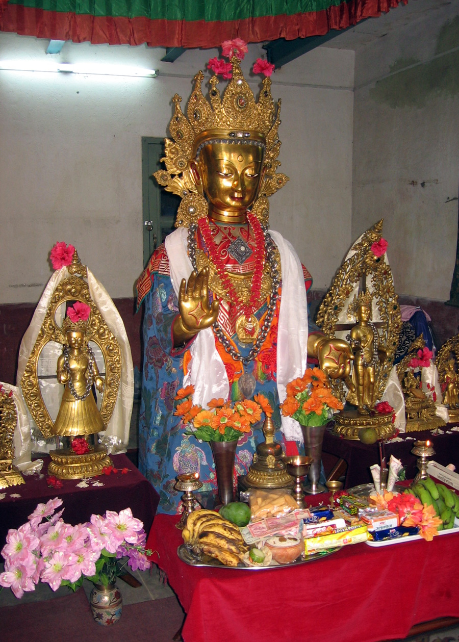 Statue of Dipankar Buddha (Bahidyah) on display during Gunla holy month in Kathmandu, Nepal.